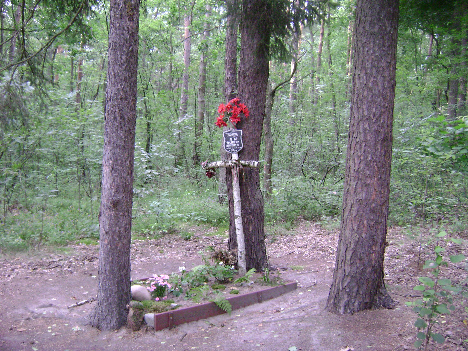 Konstancin-Jeziorna, Lasy Chojnowskie